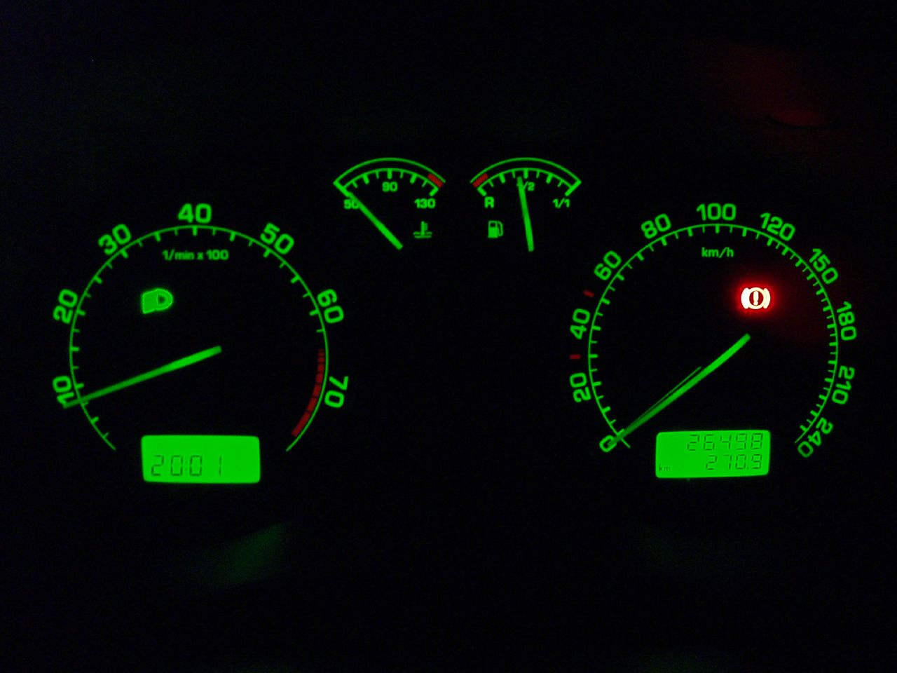 The Instrument Cluster of a Škoda Octavia